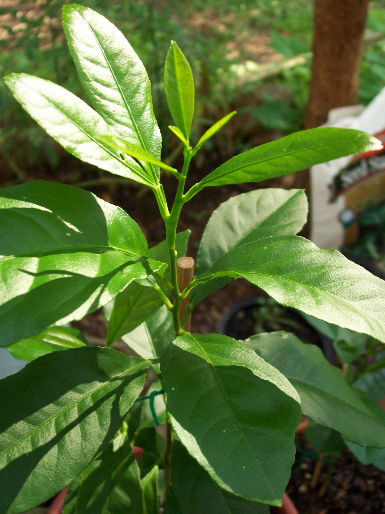 Lemon seedling, 15 months, Chapel Hill, North Carolina